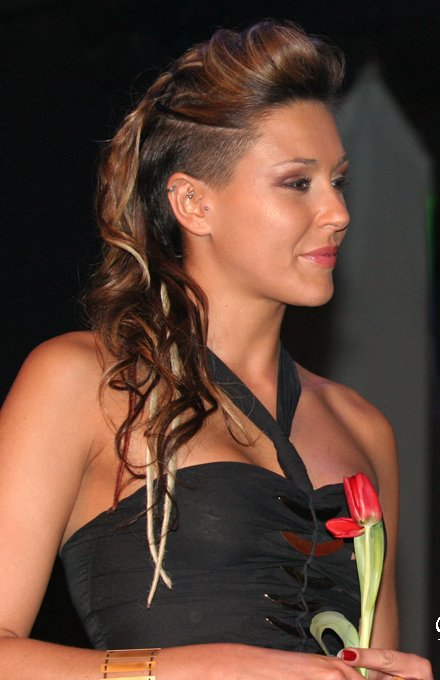 Model, actress and TV host Merche Romero.